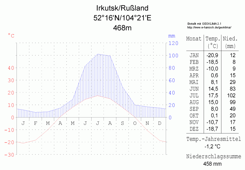 climate chart in the format by Walther and Lieth, metric, °Celsisus and millimeters, made with Geoklima 2.1